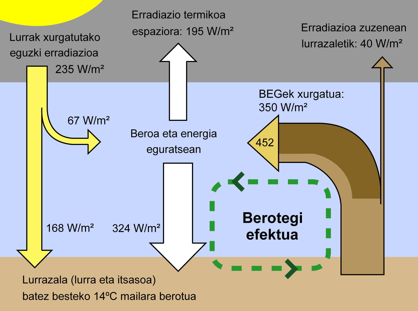 This figure is a simplified, schematic representation of the flows of energy between space, the atmosphere, and the Earth's surface, and shows how these flows combine to trap heat near the surface and create the greenhouse effect. Energy exchanges are expressed in watts per square meter (W/m2) and derived from Kiehl & Trenberth (1997).